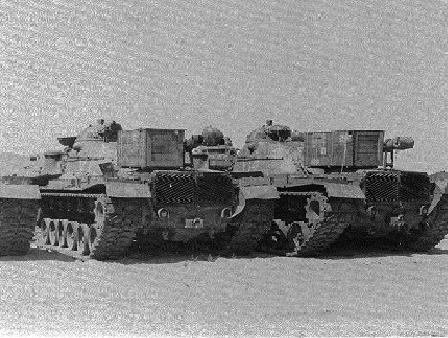 Marine Corps' M67A2 flame thrower tanks mothballed at Barstow, CA. Wooden boxes on tanks' rear decks contain various fittings to be used